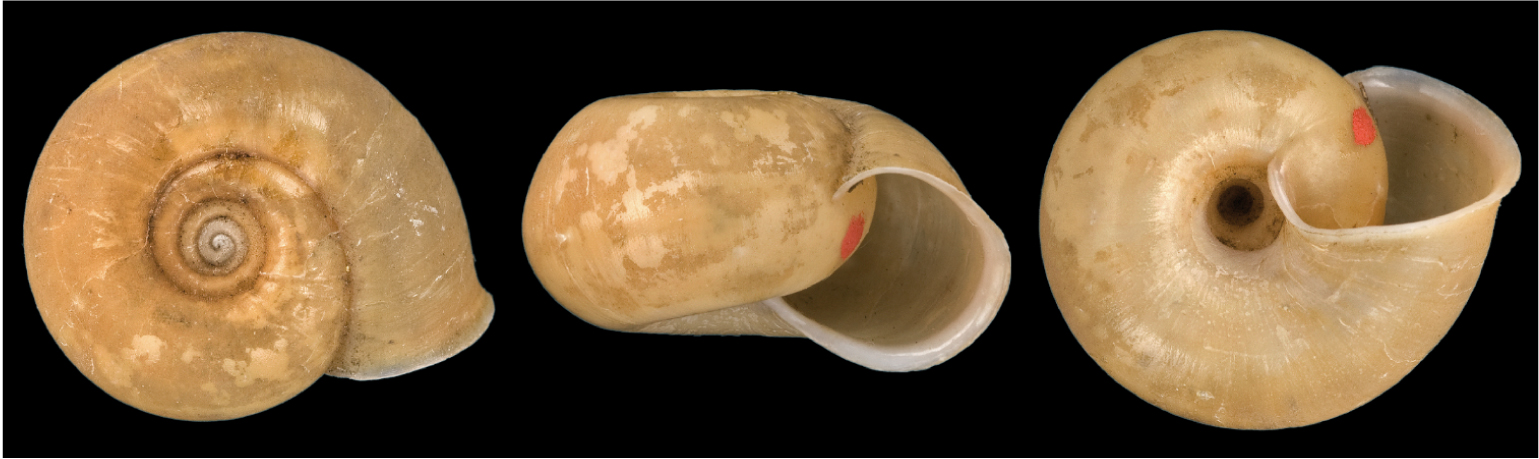 apical, apertural and umbilical view of the shell of the syntype of Chloritis biomphala. From The Natural History Museum (formerly British Museum [Natural History]), London, United Kingdom, number 198074. The width of the shell is 20 mm.